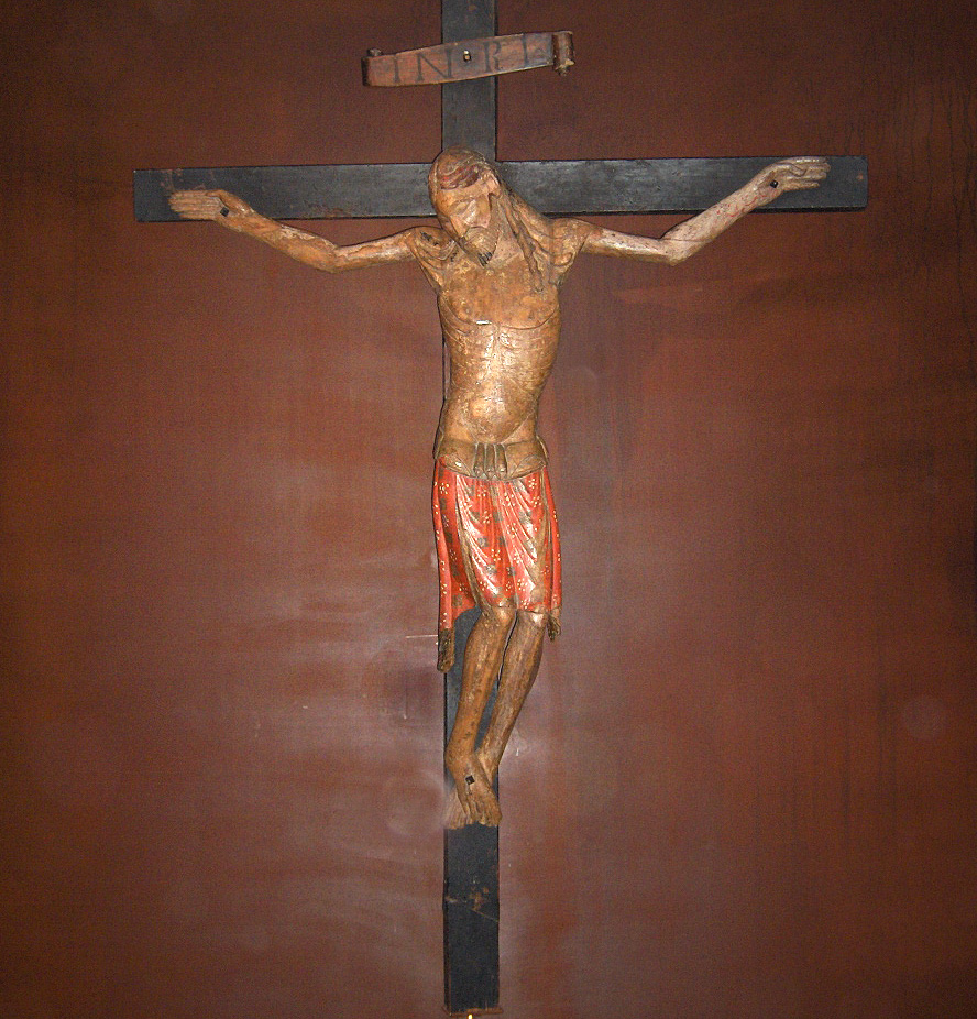 Romanesque crucifix, late 12th century; linden wood; one of the oldest wooden crosses in Austria; museum of the Melk Abbey, Austria